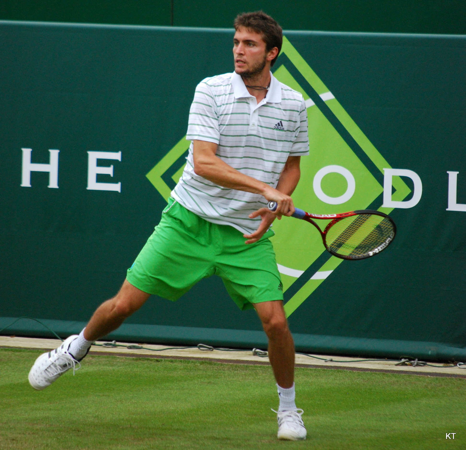 During his match with Juan Martin Del Potro. The Boodles, Stoke Park, 2011.